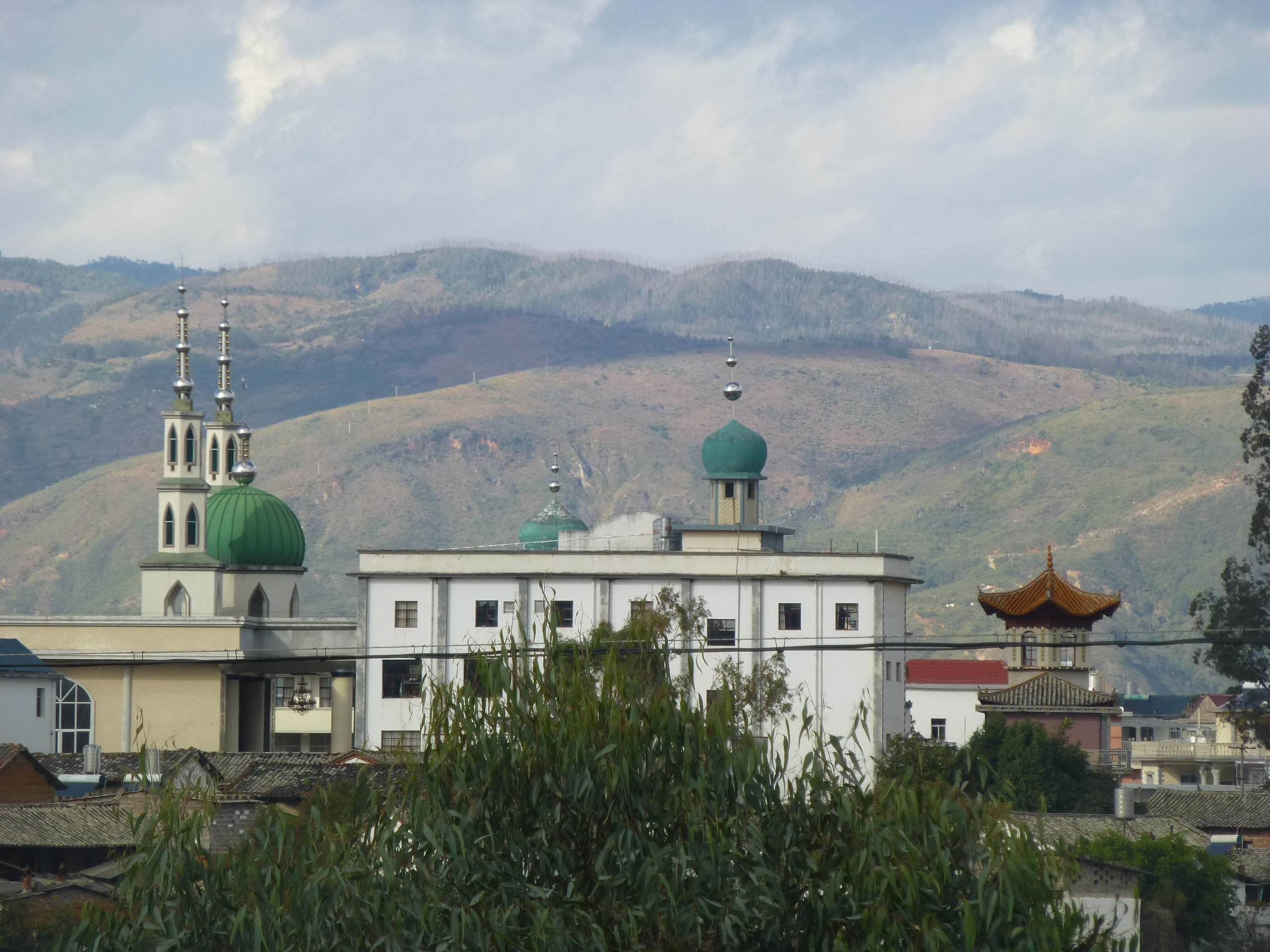 Guanyi Village, south of Qujiang Town, Jianshui County, Yunnan